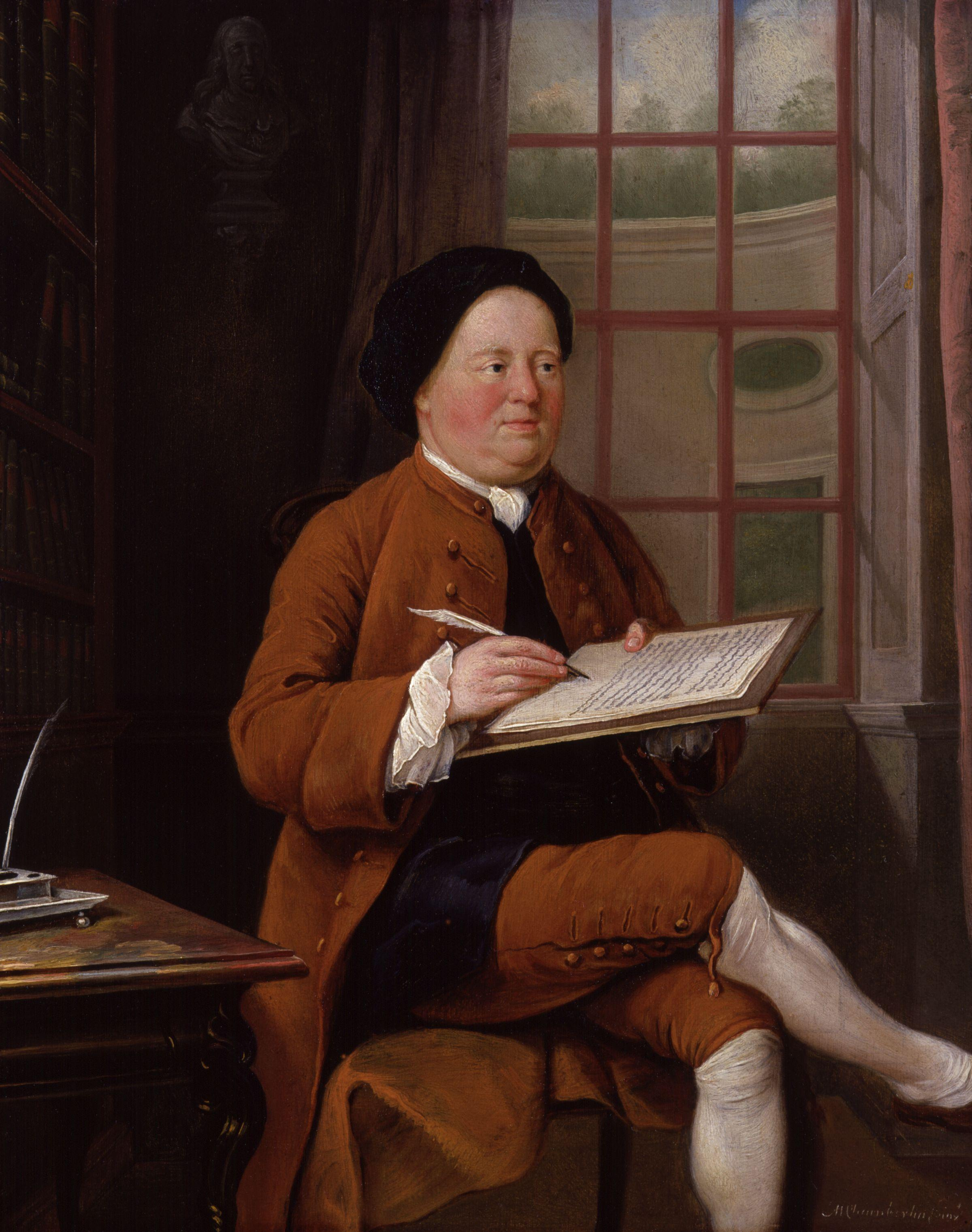 All images in this batch have been confirmed as author died before 1939 according to the official death date listed by the NPG, given to the National Portrait Gallery, London in 1998.